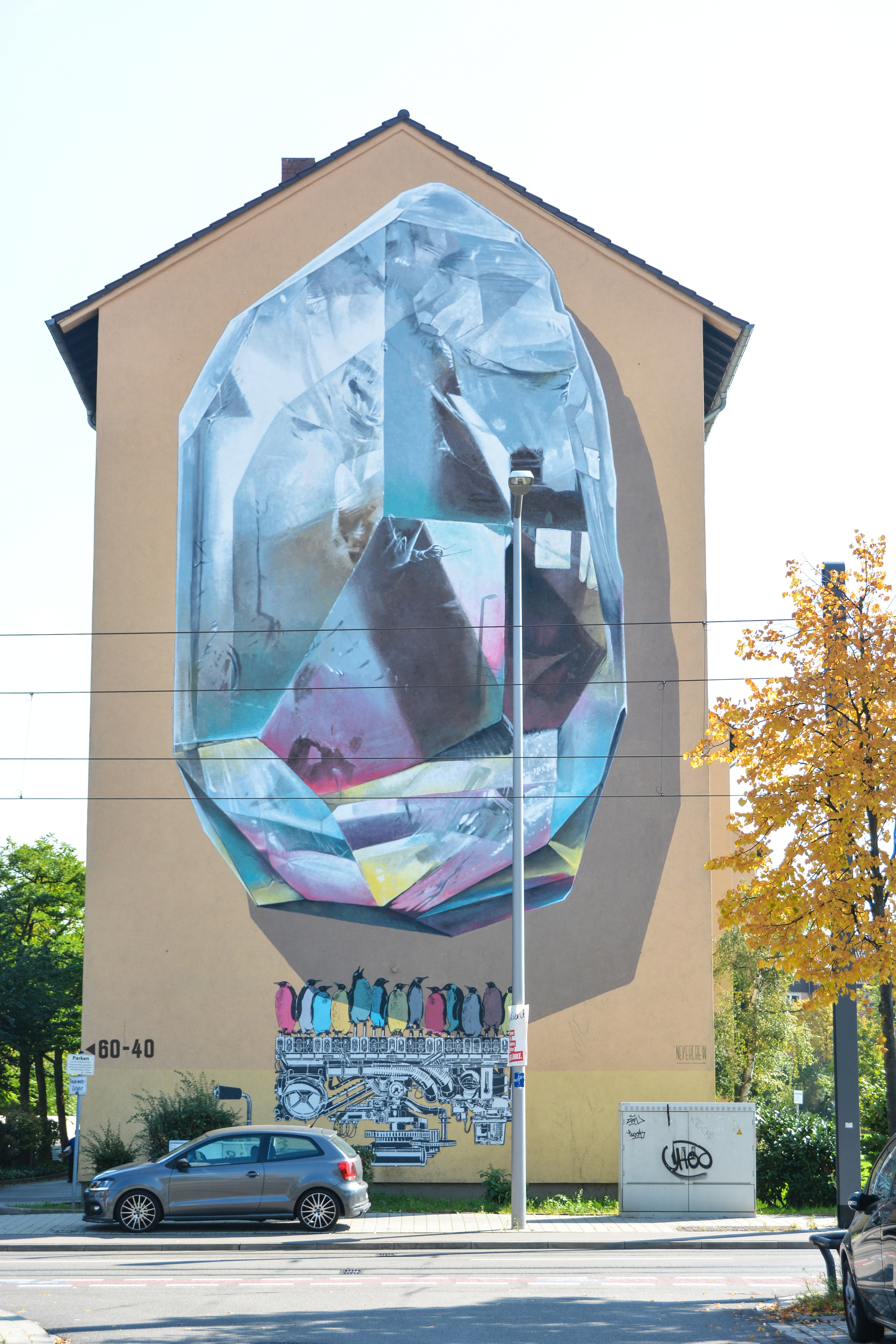 Mural "Propagating machine" (2017) by artists NEVERCREW in Ulmenweg 40, 68167 Mannheim, Germany